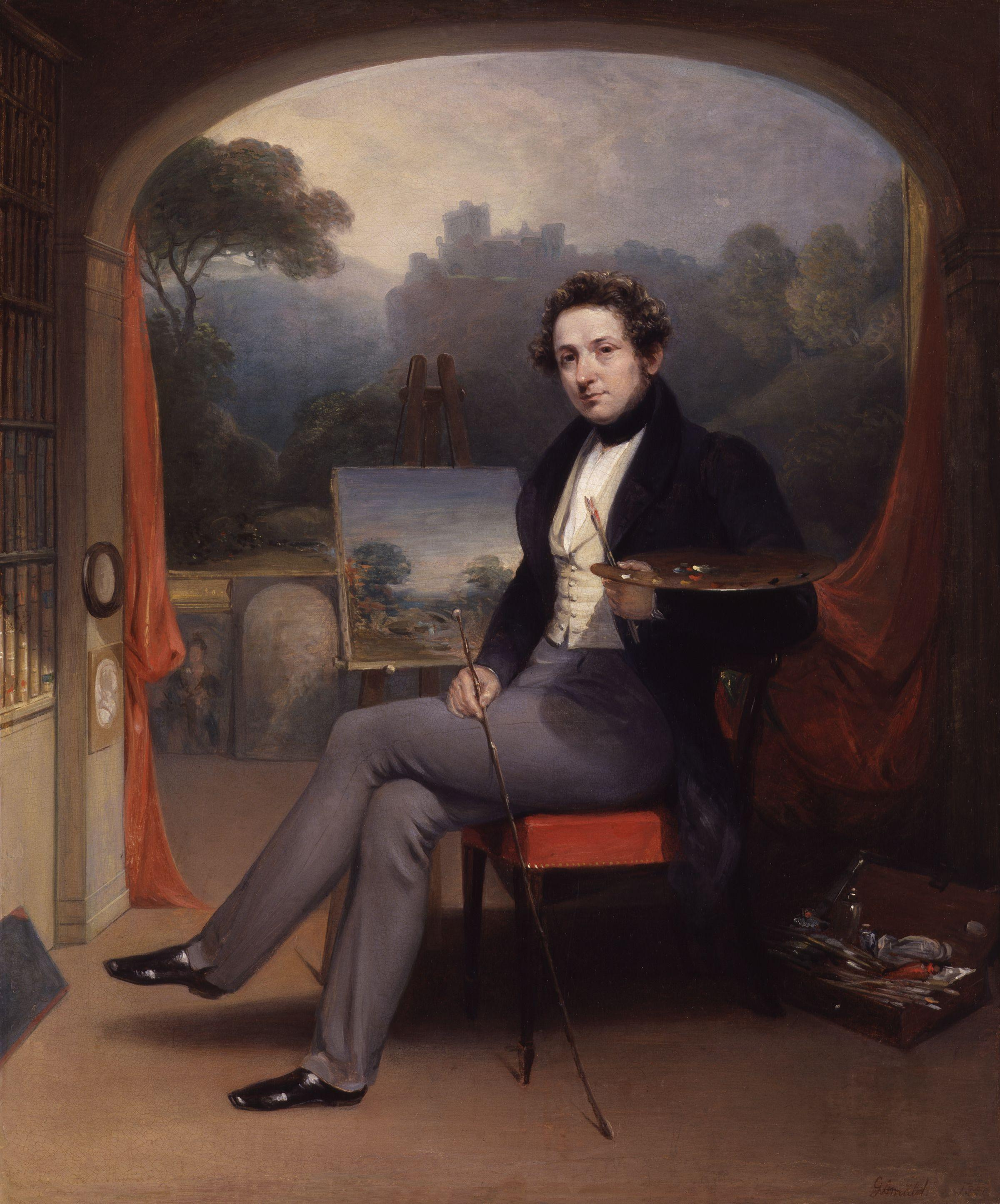 George Arnald, by George Arnald (died 1841), given to the National Portrait Gallery, London in 1979. All images in this batch have been confirmed as author died before 1939 according to the official death date listed by the NPG.